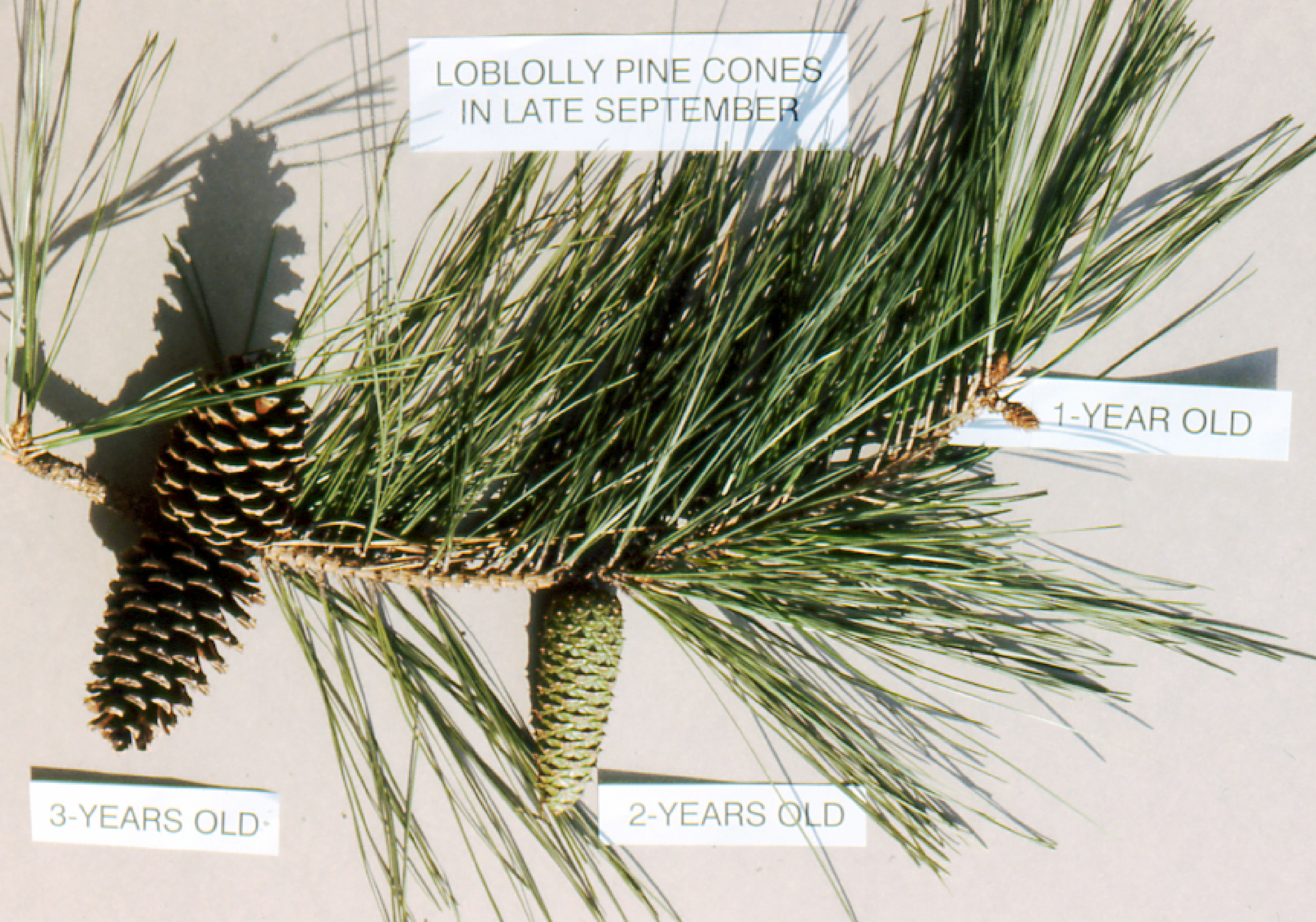 Loblolly pine (Pinus taeda) branch showing three ages of cones.